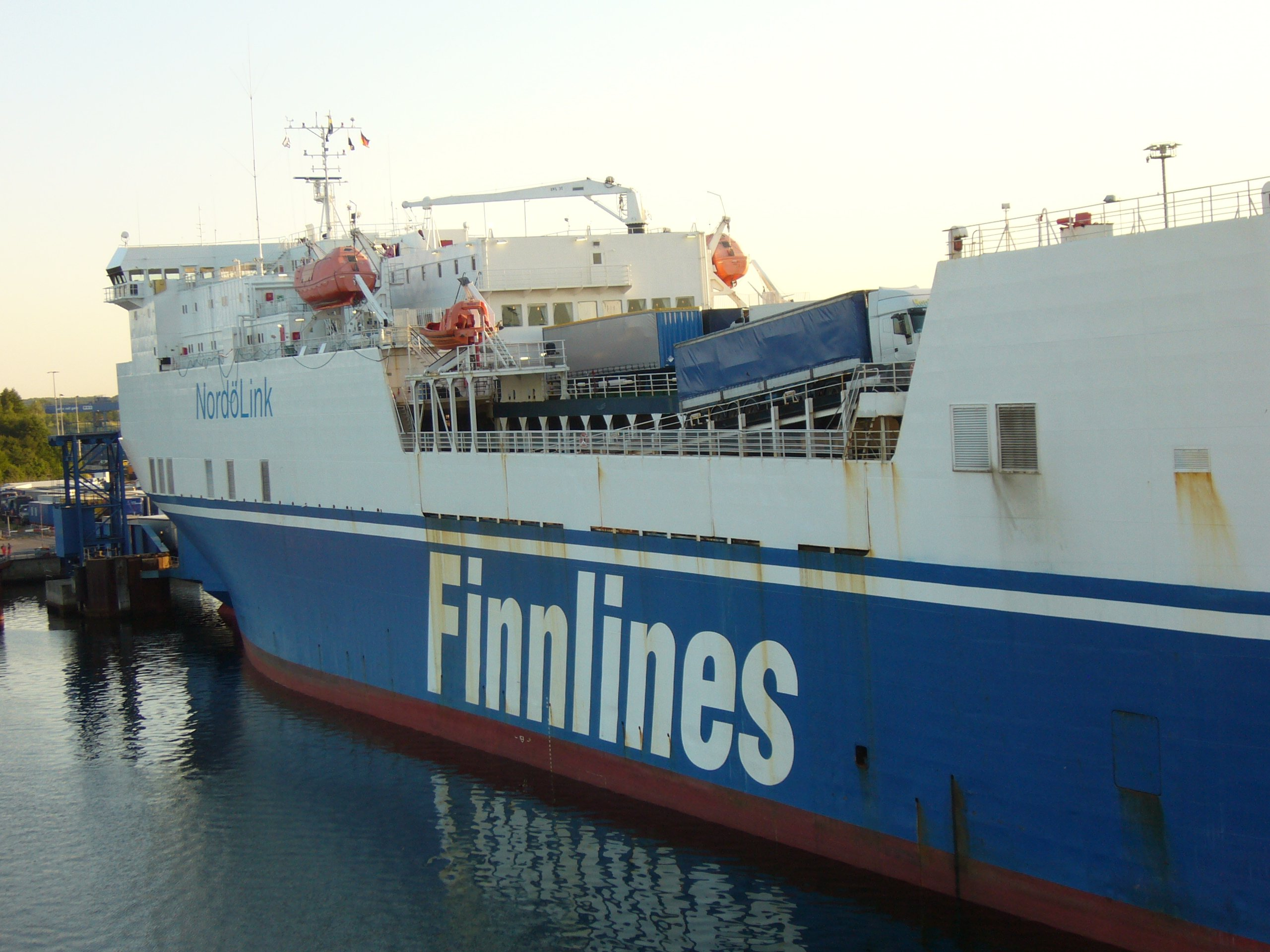 M/S Lübeck Link (currently M/S Ropax 2) in Travemünde, Germany.